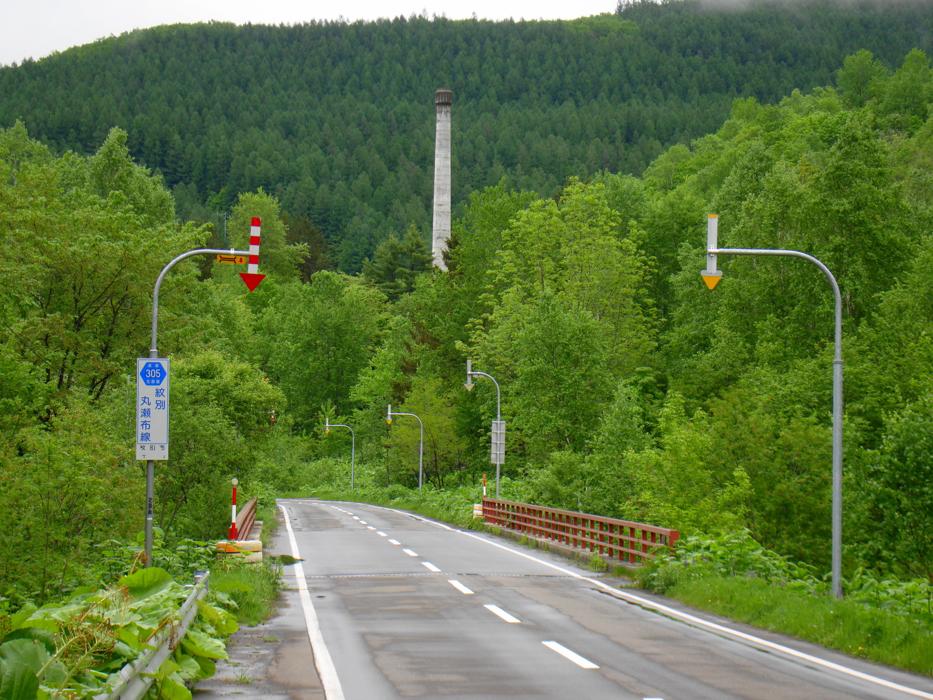 Chimney at former Konomai Mine in Kōnomai, Mombetsu City, Hokkaidō, Japan, seen from the Hokkaido Prefectural Road Route 305